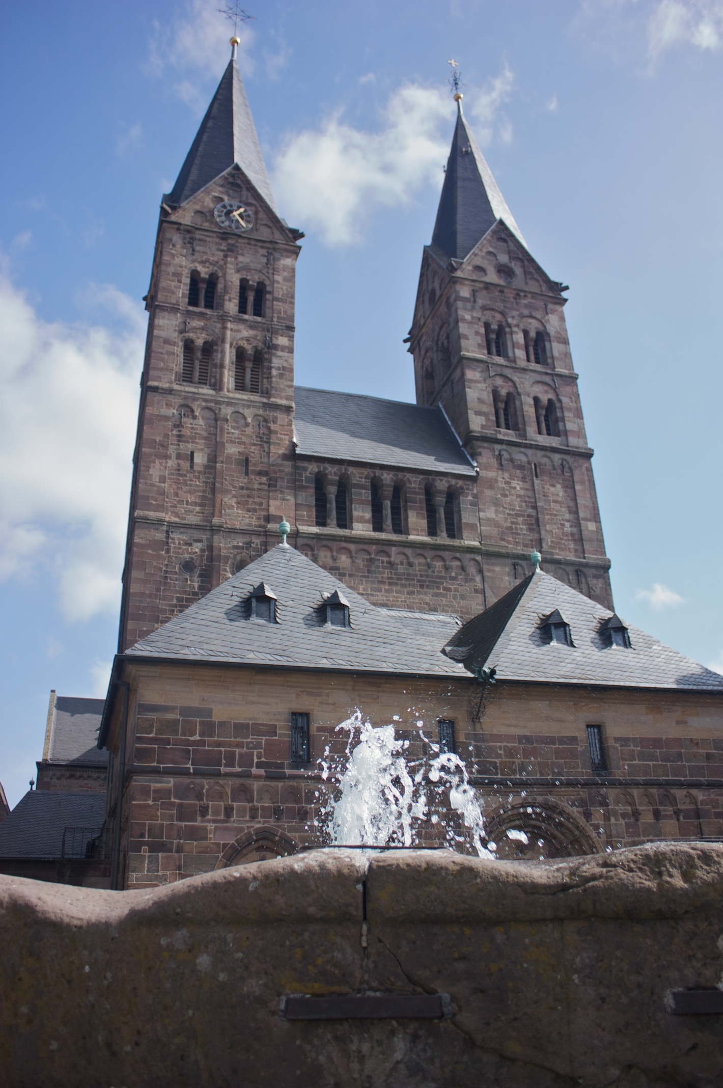 That's a view shot off the water fountain in front.